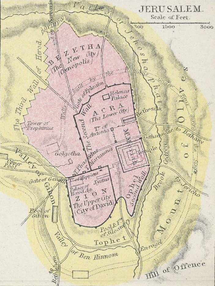 The Atlas of Ancient and Classical Geography by Samuel Butler